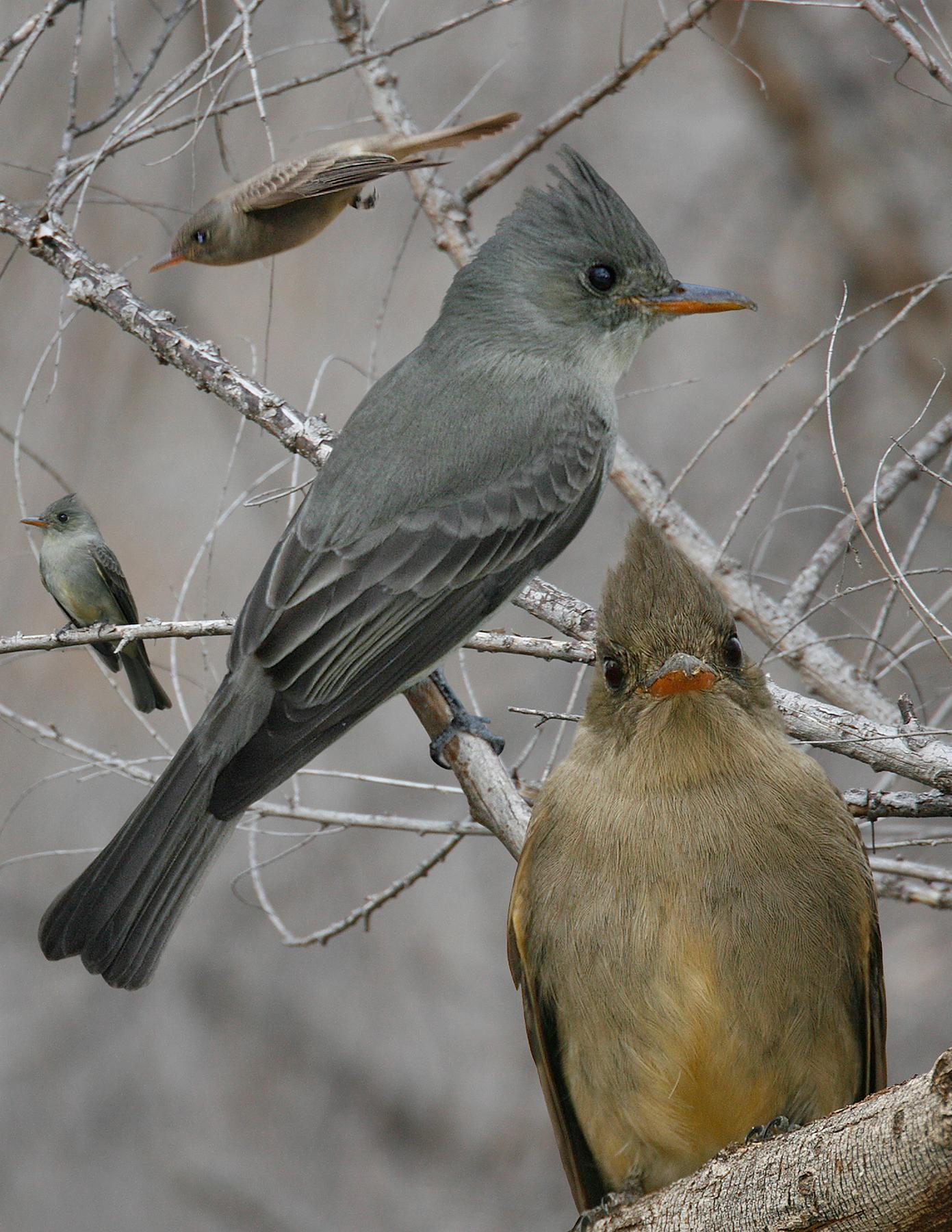 Greater Pewee From The Crossley ID Guide Eastern Birds